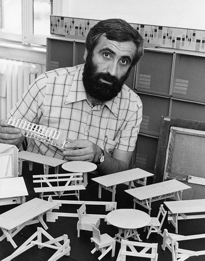 The Italian architect and designer Enzo Mari posing in his studio in front of some models of his projects. Milan, 1974